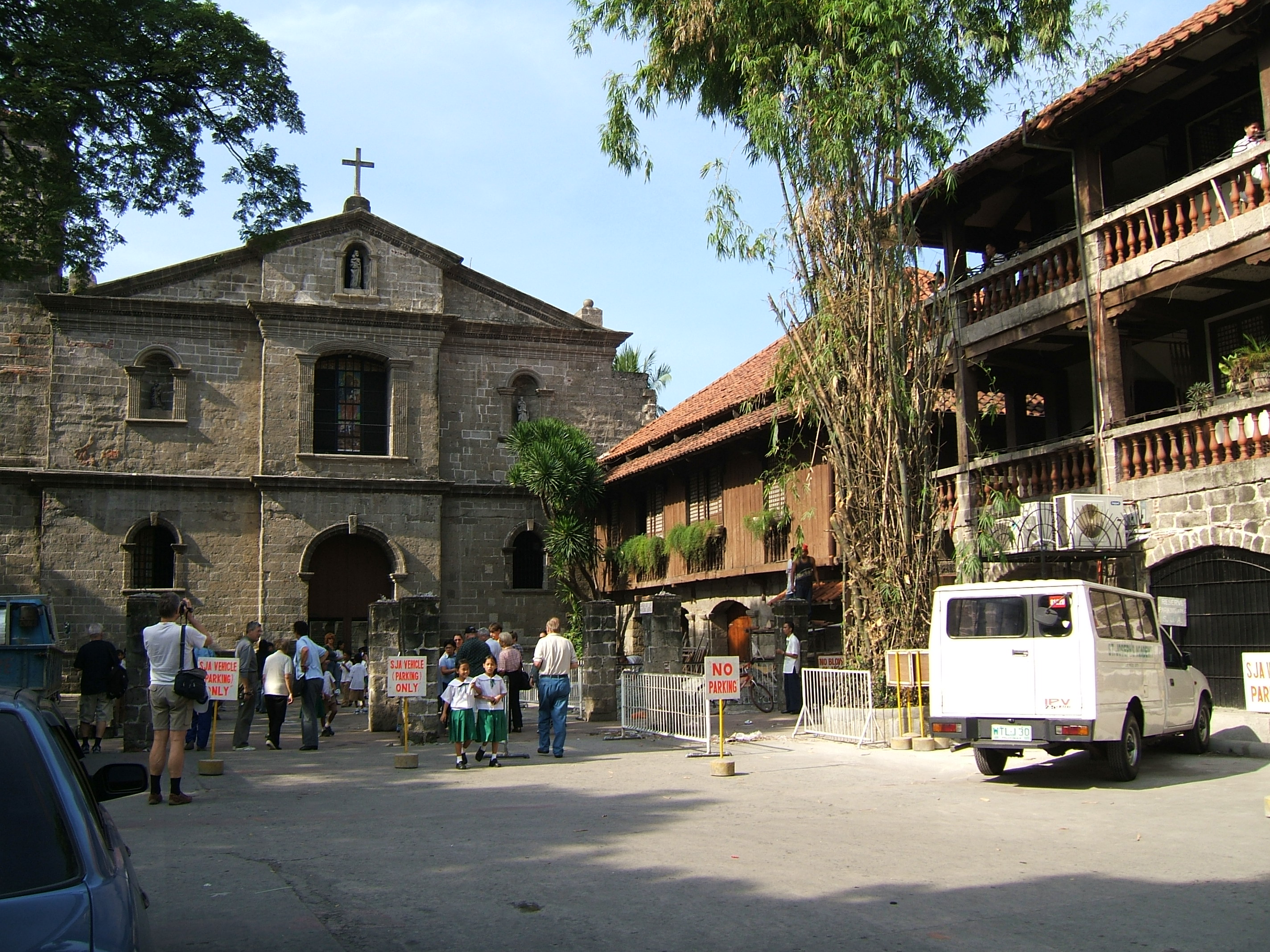 This is actually the Church of Saint Joseph in Las Piñas, Metro Manila where the famous Bamboo Organ is located.